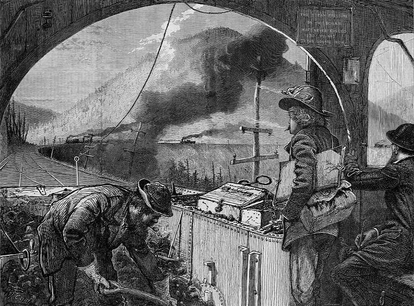 On the Way to Pittsburgh -- Great Bend on the Alleghenies, a wood engraving drawn by Harry Fenn and published March 4, 1871 in Every Saturday, Boston, Massachusetts.